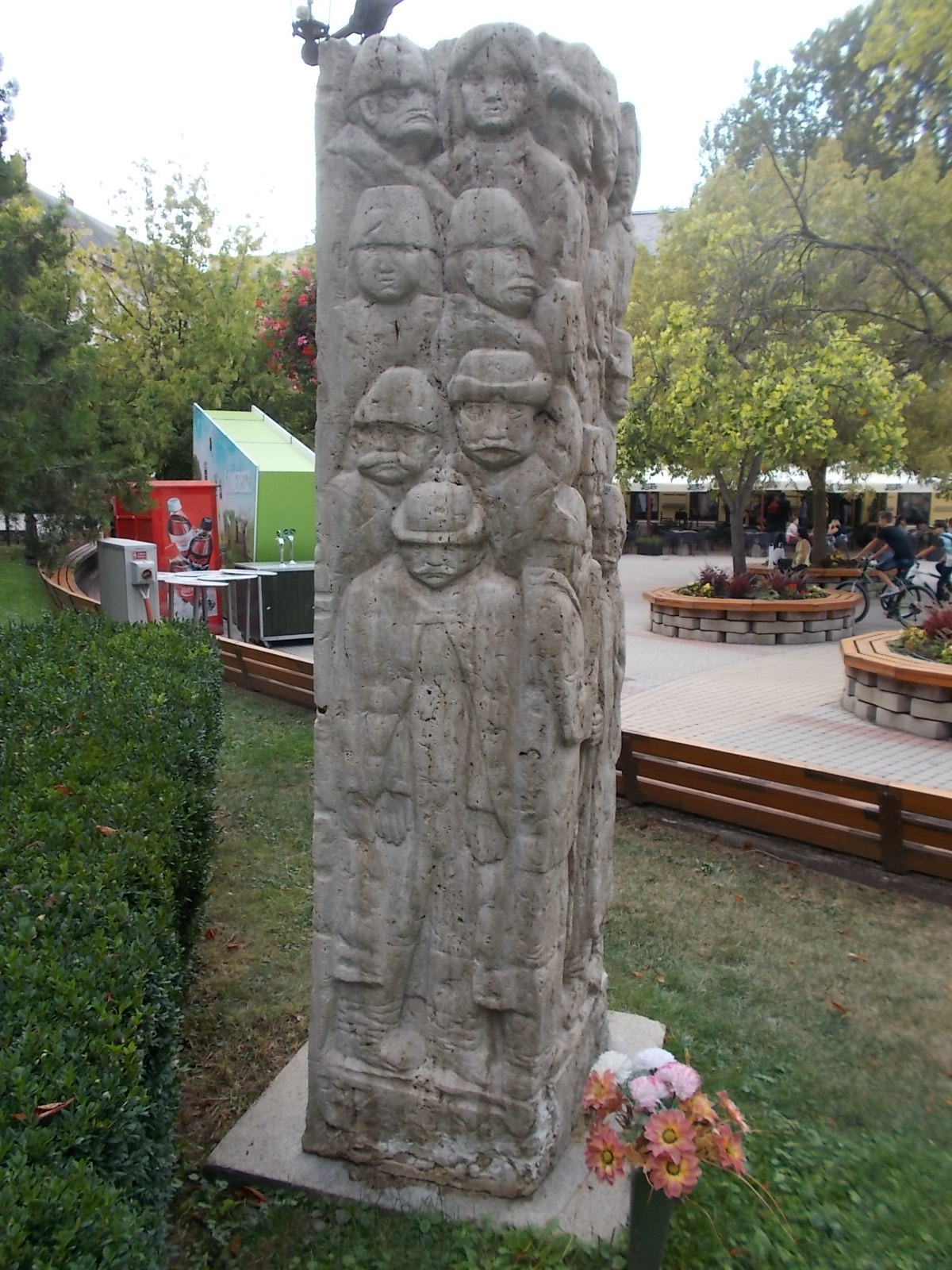 Memorial column to the liberation of Dessewffy and Károlyi landlords. Because in 1824 the city bought free city status ( 150th anniversary, 1974 limestone works by Sándor Nagy ). Depicts: on the left side of the memorial column are the doubtful (peasants?) faces, on the right side are trusting (peasants) faces. - Kossuth Square, Nyíregyháza, Szabolcs-Szatmár-Bereg County, Hungary.